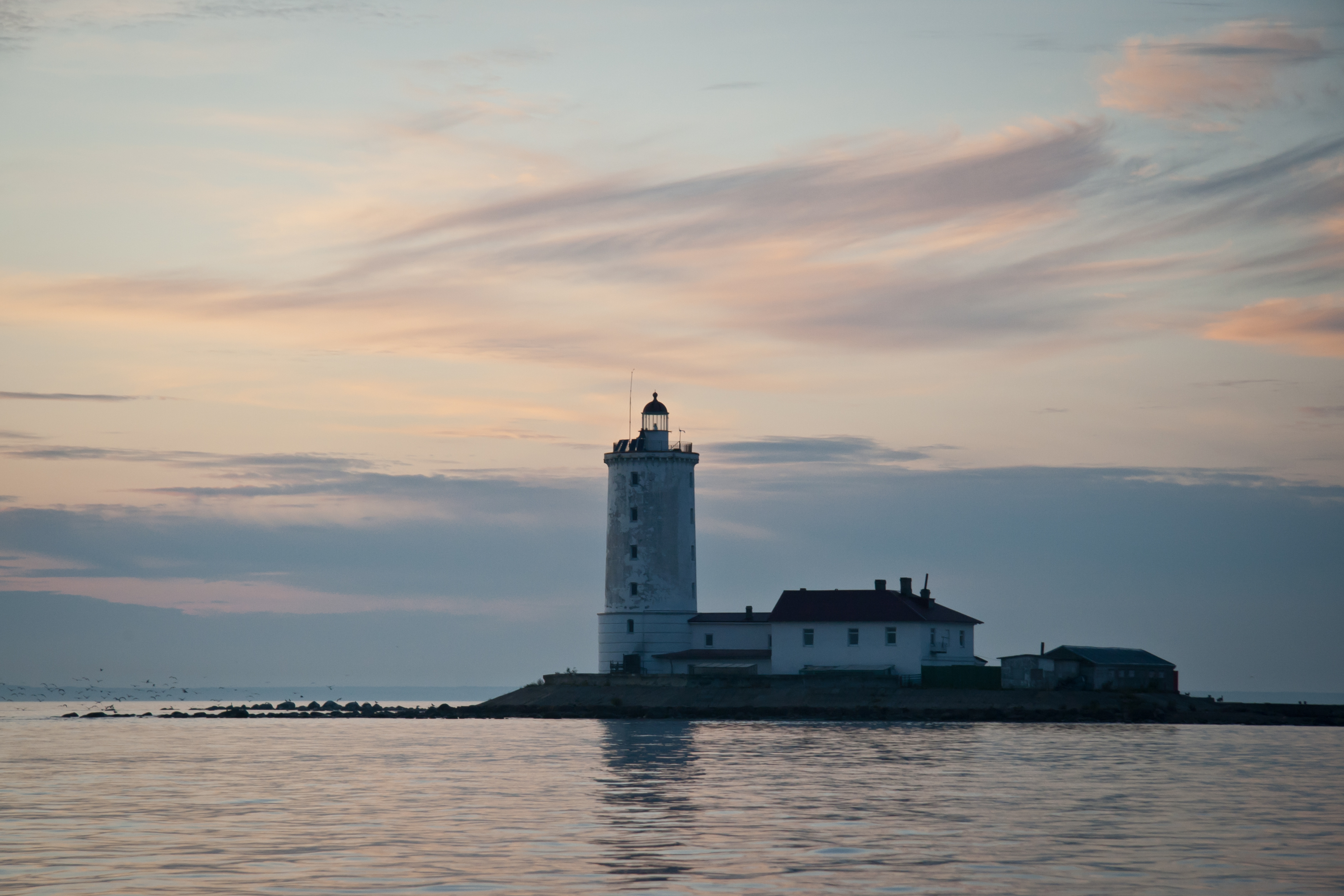 Tolbukhin lighthouse (1810, by Leontiy Spafaryev)